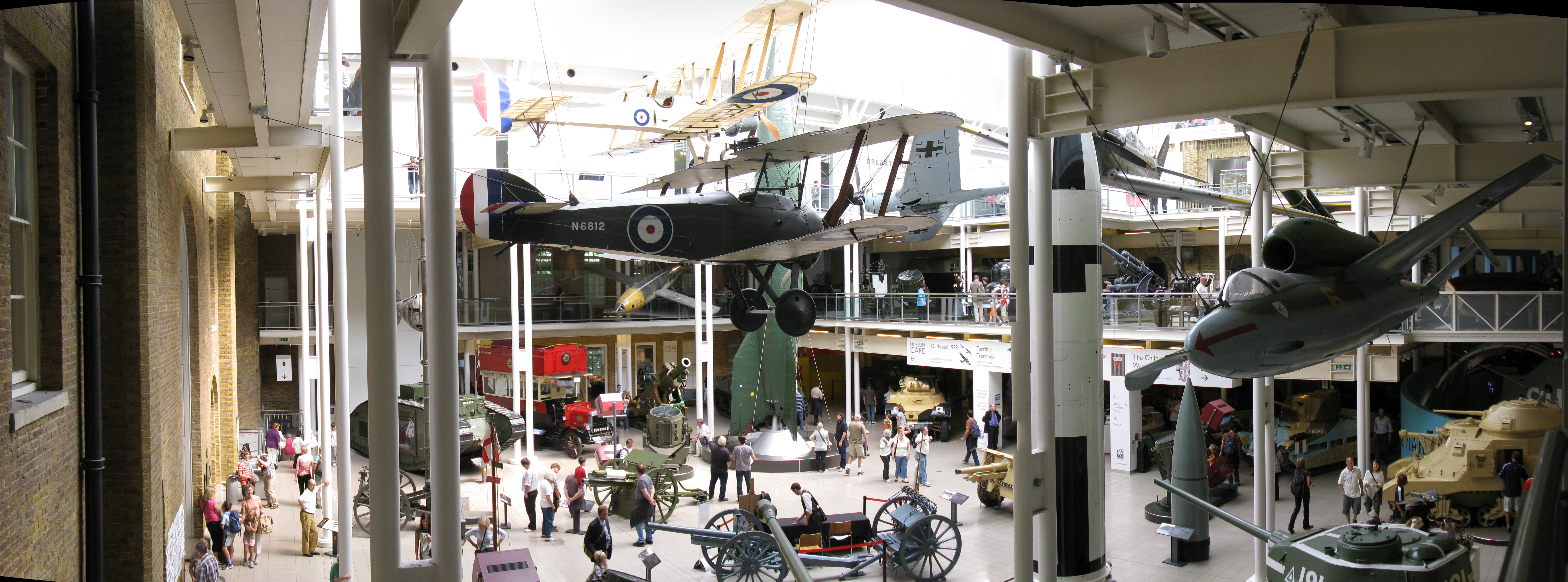 A view of the atrium of the Imperial War Museum in London.